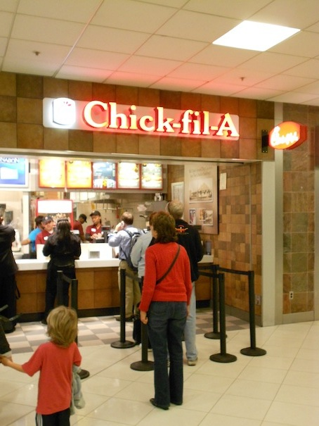 Chick-fil-a